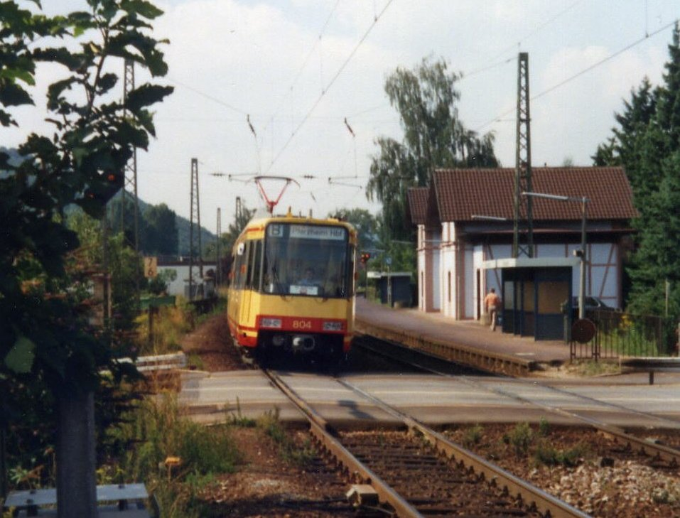 car of the Karlsruhe light railway system on the way from Karlsruhe to Pforzheim passing the station of Pfinztal-Söllingen